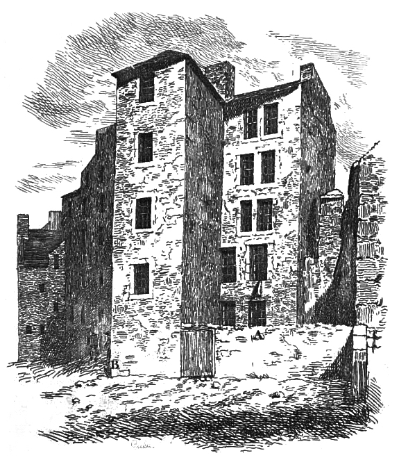 House of William Burke (serial killer)